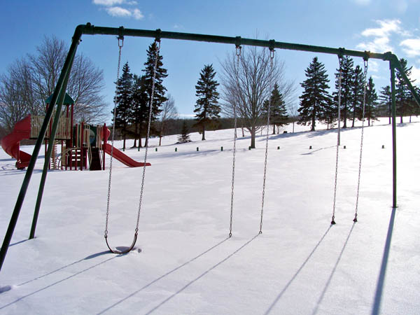 February 21, 2009. Snowshoeing the Strathgartney Nature Trail.